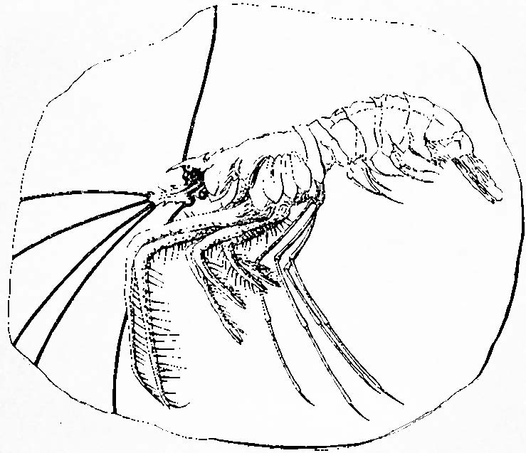 Holotype of Aeger tipularius (jr synonym Macrourites tipularius), original figure of Schlotheim (1822,pl. 2, fig. 1)